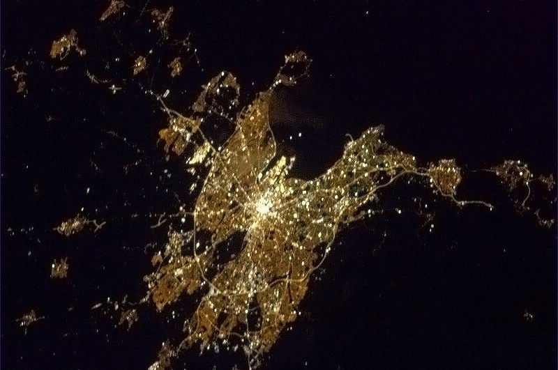 "Tá Éire fíorálainn! Land of green hills and dark beer. With capital Dublin glowing in the Irish night." — The original photograph caption by astronaut Chris Hadfield on the International Space Station included the first message from space in the Irish language. County Dublin observed from the International Space Station in February 2013. The view was shot by Expedition 34 crew member, Chris Hadfield, and extends from Balbriggan in the north (top left of picture), past Dublin City and Dublin Bay in the centre, to Greystones in the south (centre right of picture). The original image has been rotated 180 degrees to present a more familiar orientation.